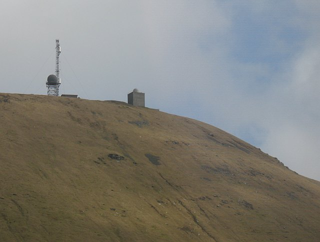 Radar, Mullach Mòr Radar buildings on Mullach Mòr, Hirta. Part of the tracking apparatus for the Benbecula missile range, now threatened with closure.